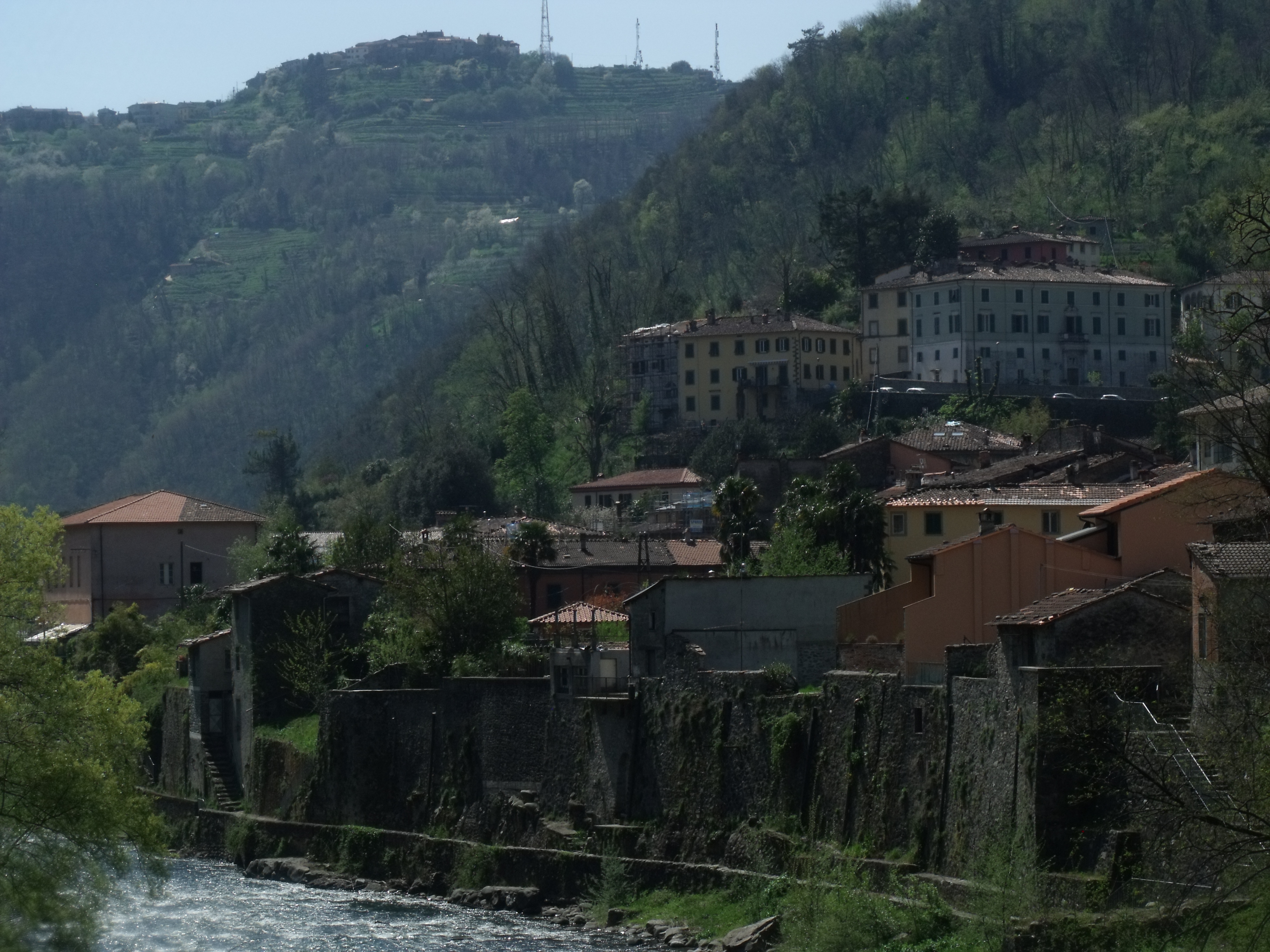 View to the City Center of Bagni di Lucca, Province of Lucca, Tuscany, Italy. Below the Lima River.